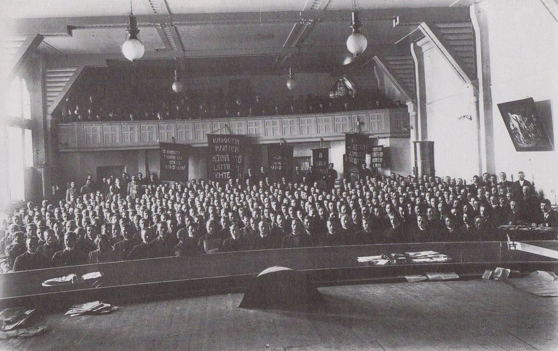 The first national congress of peasants. 9–12 April 1906, Workers' Hall, Tampere, Finland.